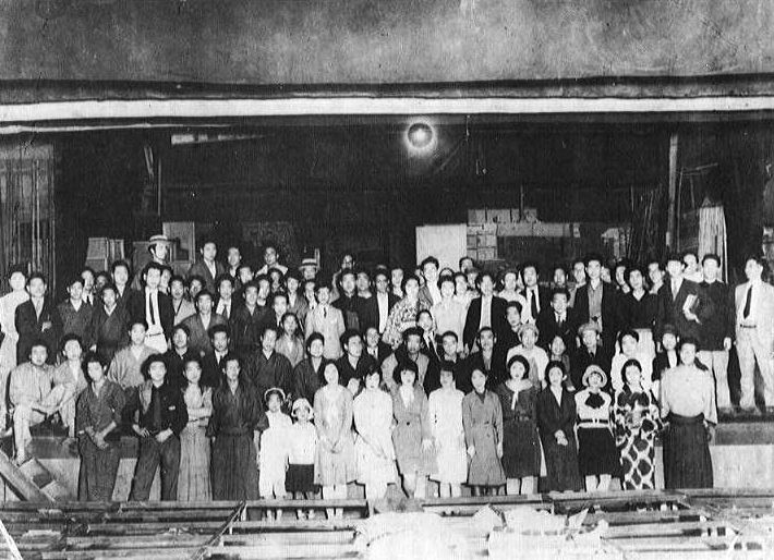 Performance of leftist theatrical company done in Fukuoka City theater in 1931.